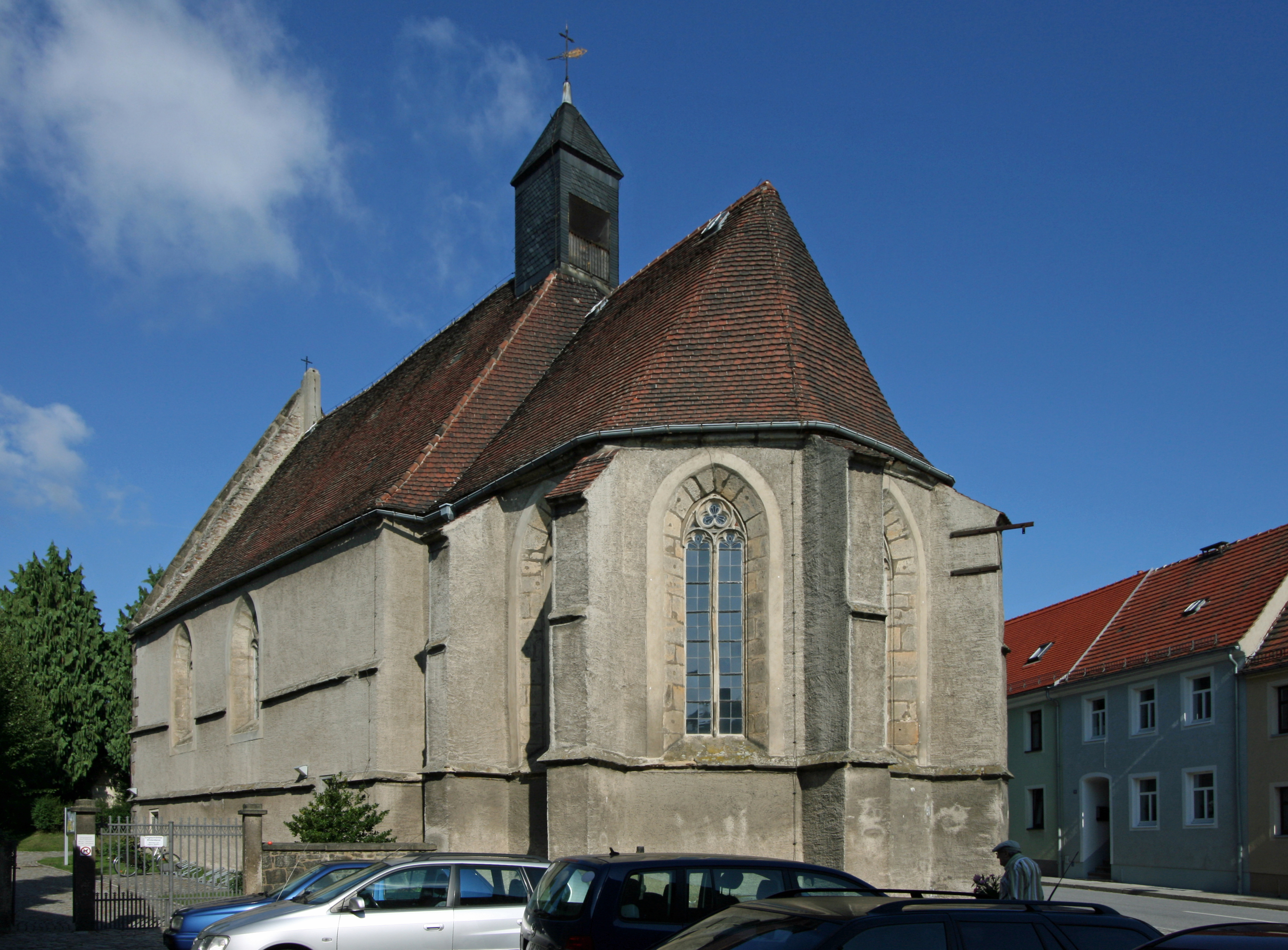 Kamenz (Germany, Saxony), church St. Just